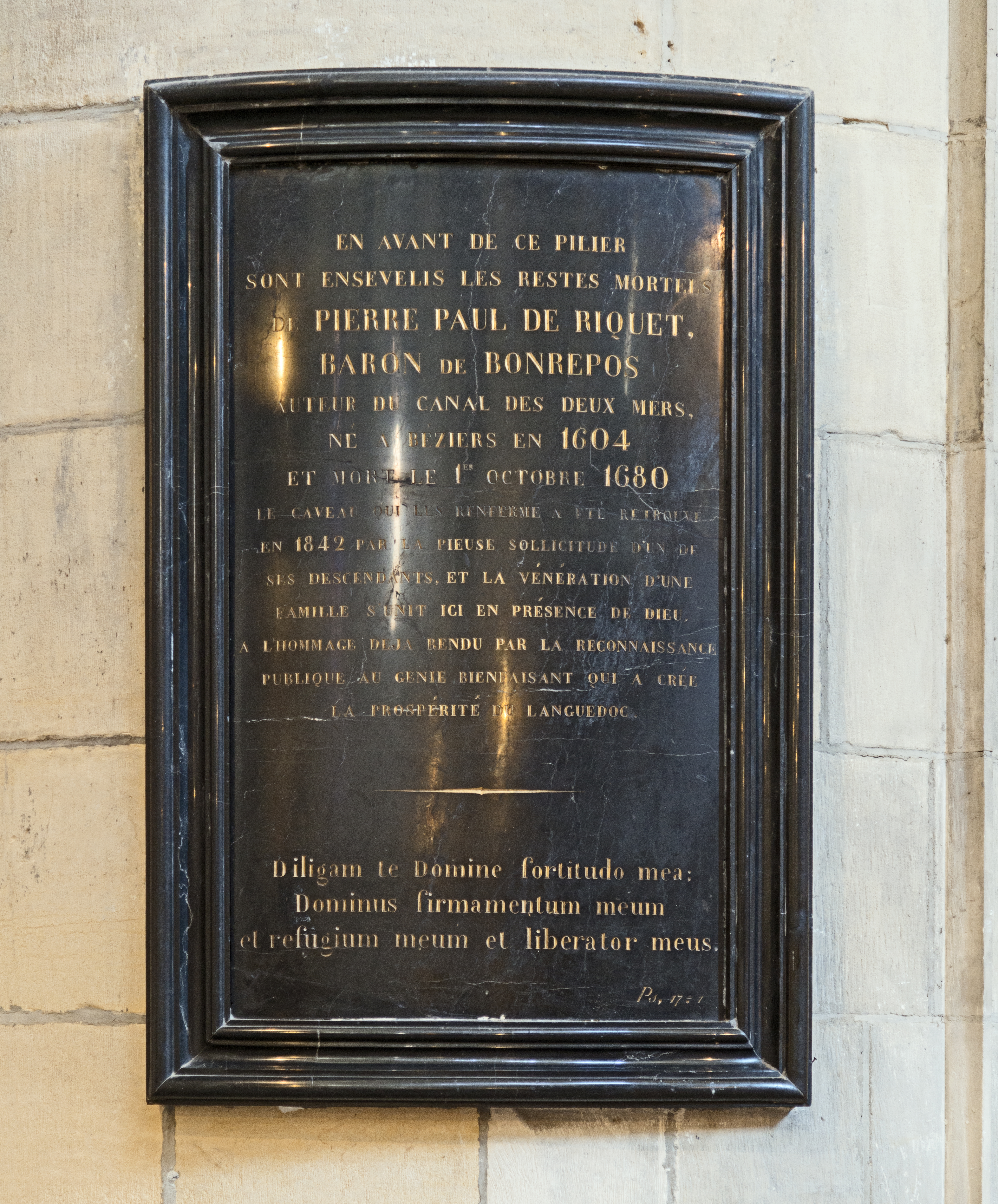 Stele of Pierre Paul Riquet, Baron Bonrepos Cathedral Saint-Etienne Toulouse.